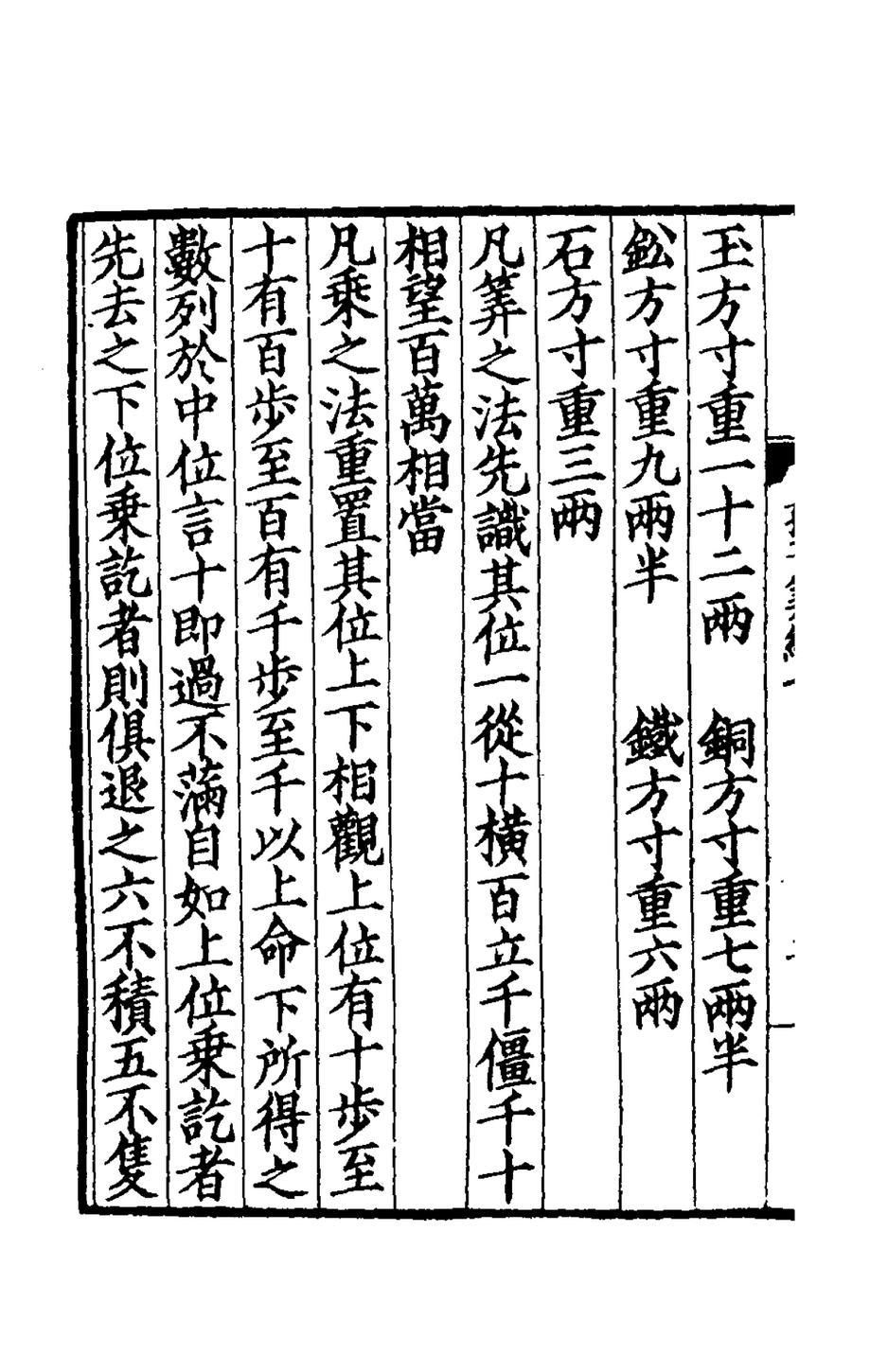 Sunzi Mathematical Manual page 7